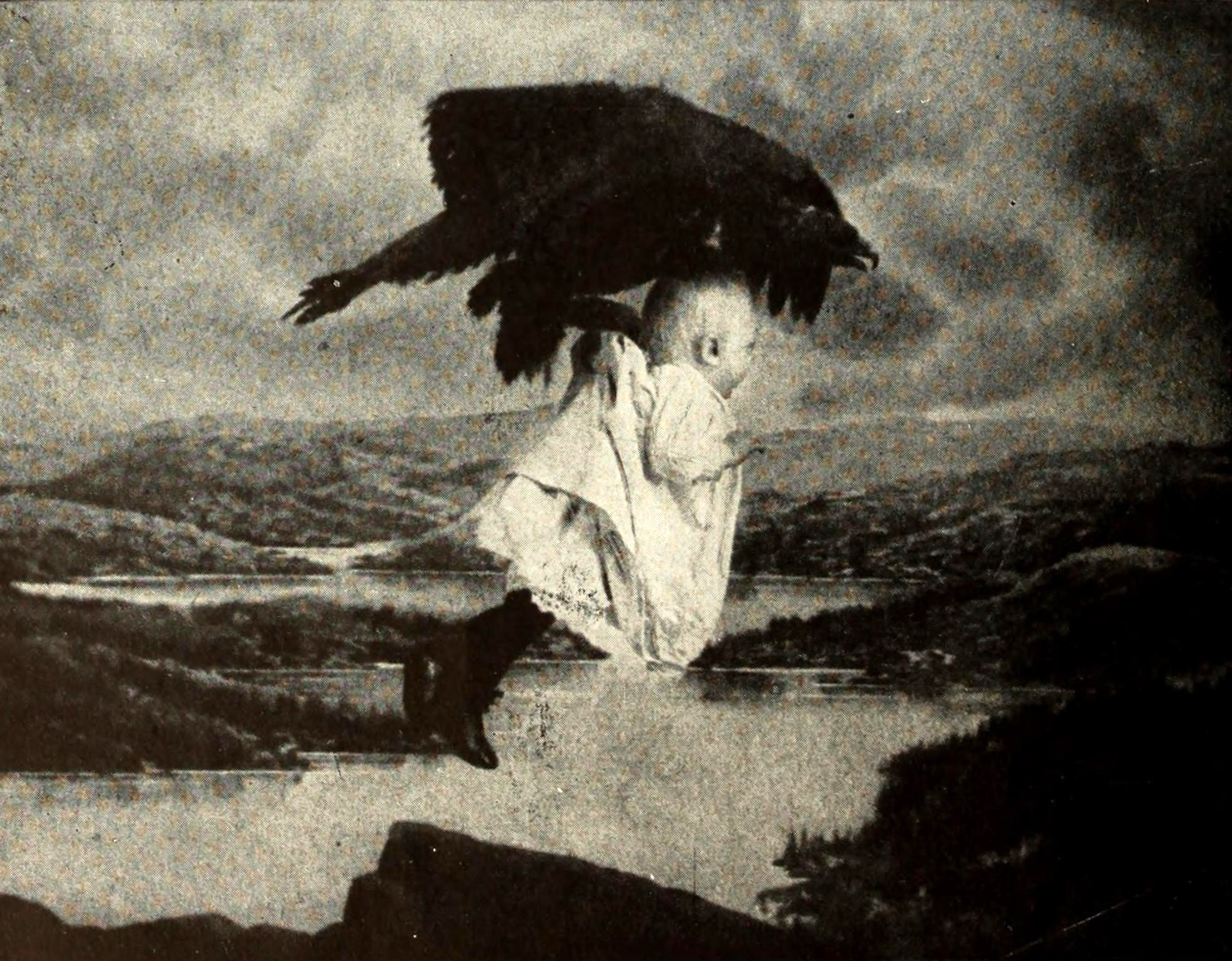 Film still from Rescued from an Eagle's Nest, an American short film by J. Searle Dawley.